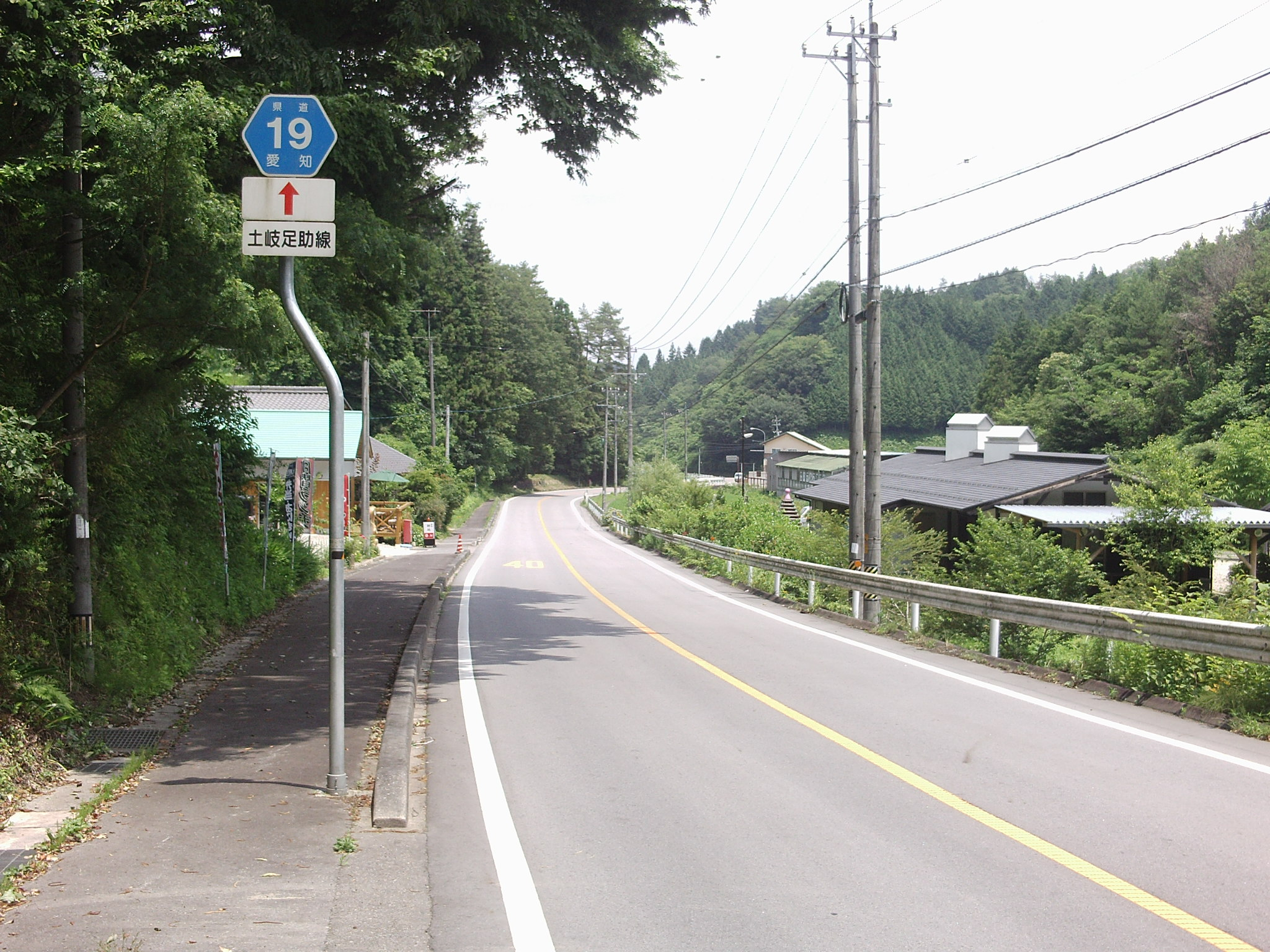 Aichi prefectural road No.19 in Shinmoricho, Toyota, Aichi.